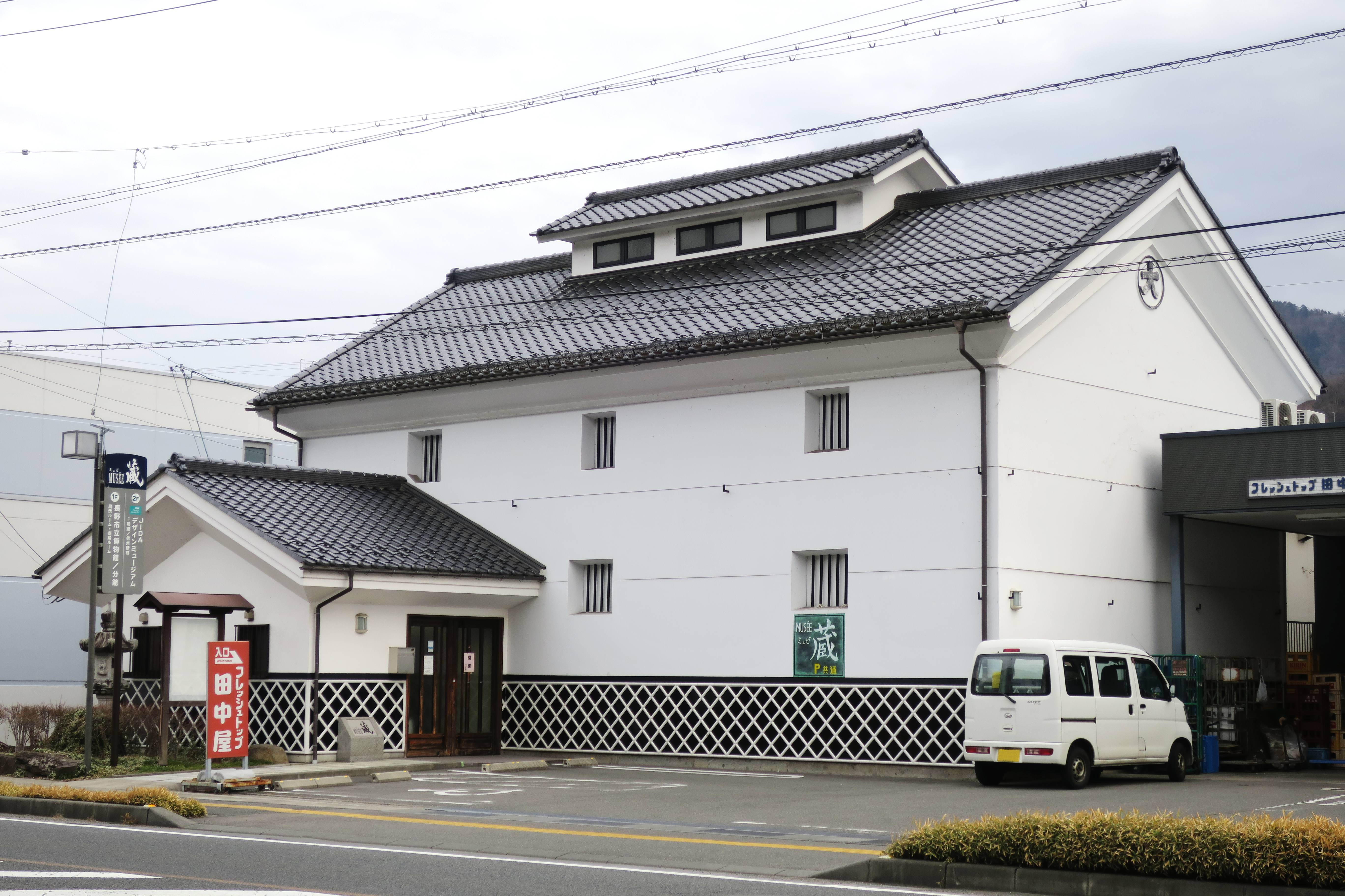 Musee Kura (Nagano, Nagano).